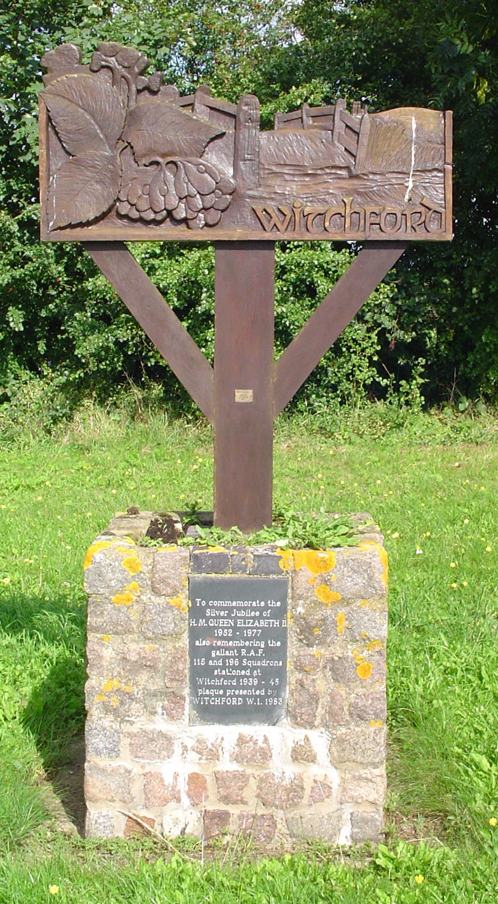 Signpost in Witchford